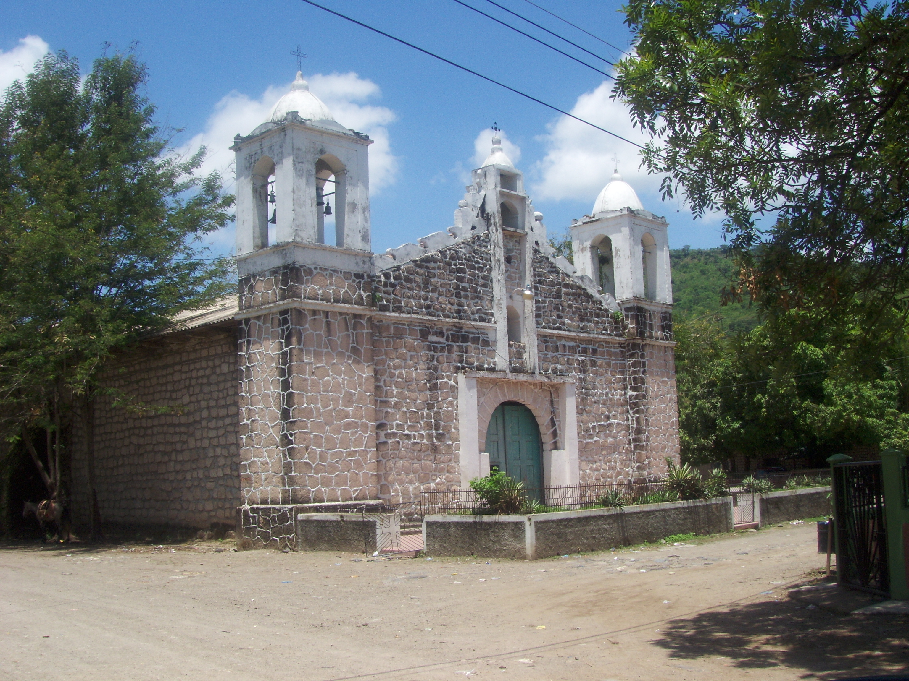 Stone church in Alubarén — a municipality in the department of Francisco Morazán, Honduras.